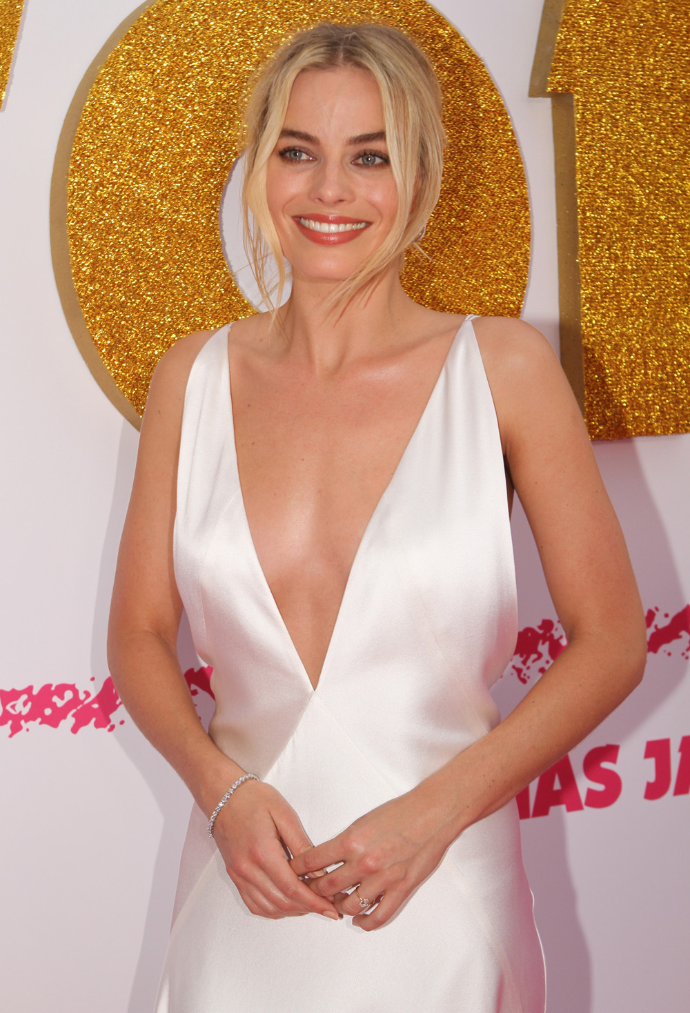 SYDNEY, AUSTRALIA - JANUARY 23 Margot Robbie arrives at the Australian Premiere of 'I, Tonya' on January 23, 2018 in Sydney, Australia photo by Eva Rinaldi